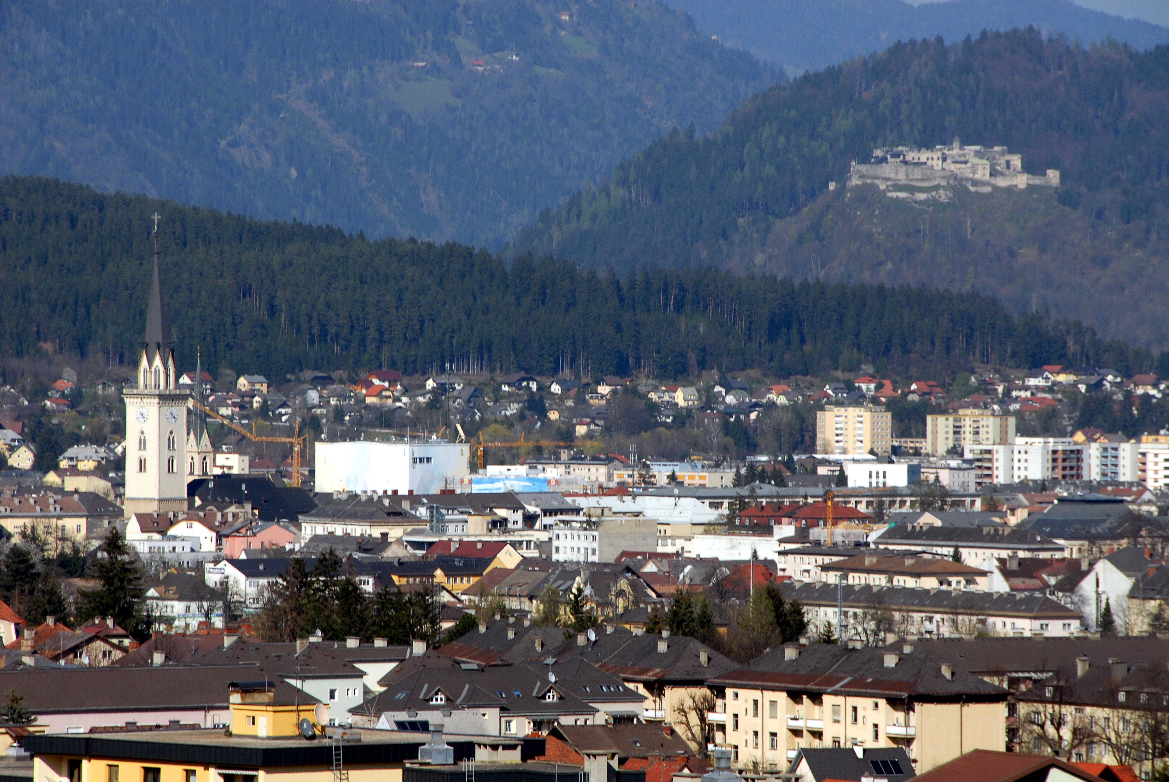 View over Villach towards Landskron Castle, municipality Villach, Carinthia, Austria, EU